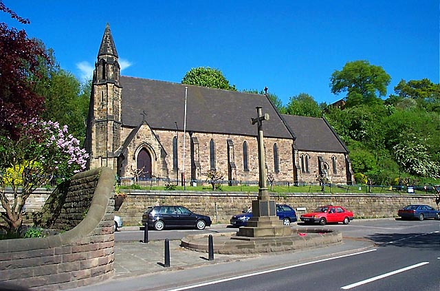 Holy Trinity parish church, Milford, Derbyshire: built in 1848 at a cost of £2,000. The War Memorial was built in 1926.